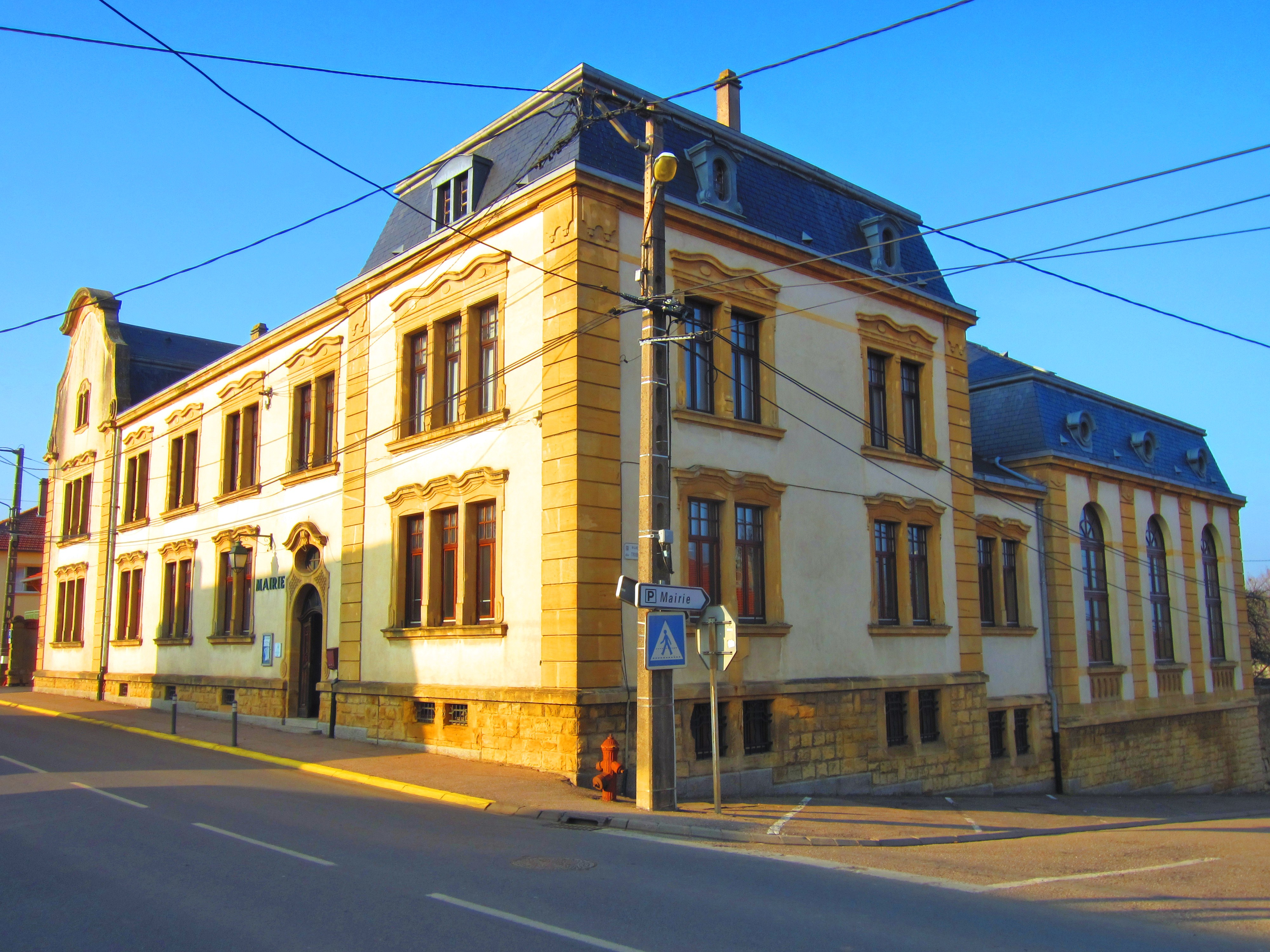 Remilly town council